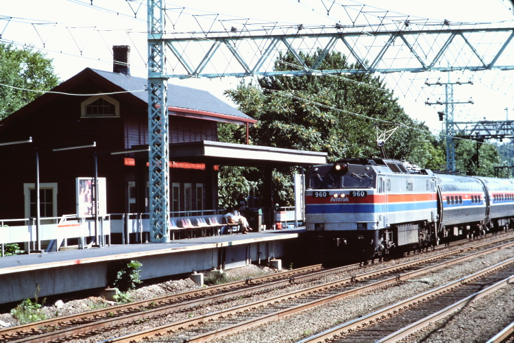 An Amtrak E60 leads a southbound train through Cos Cob in September 1975